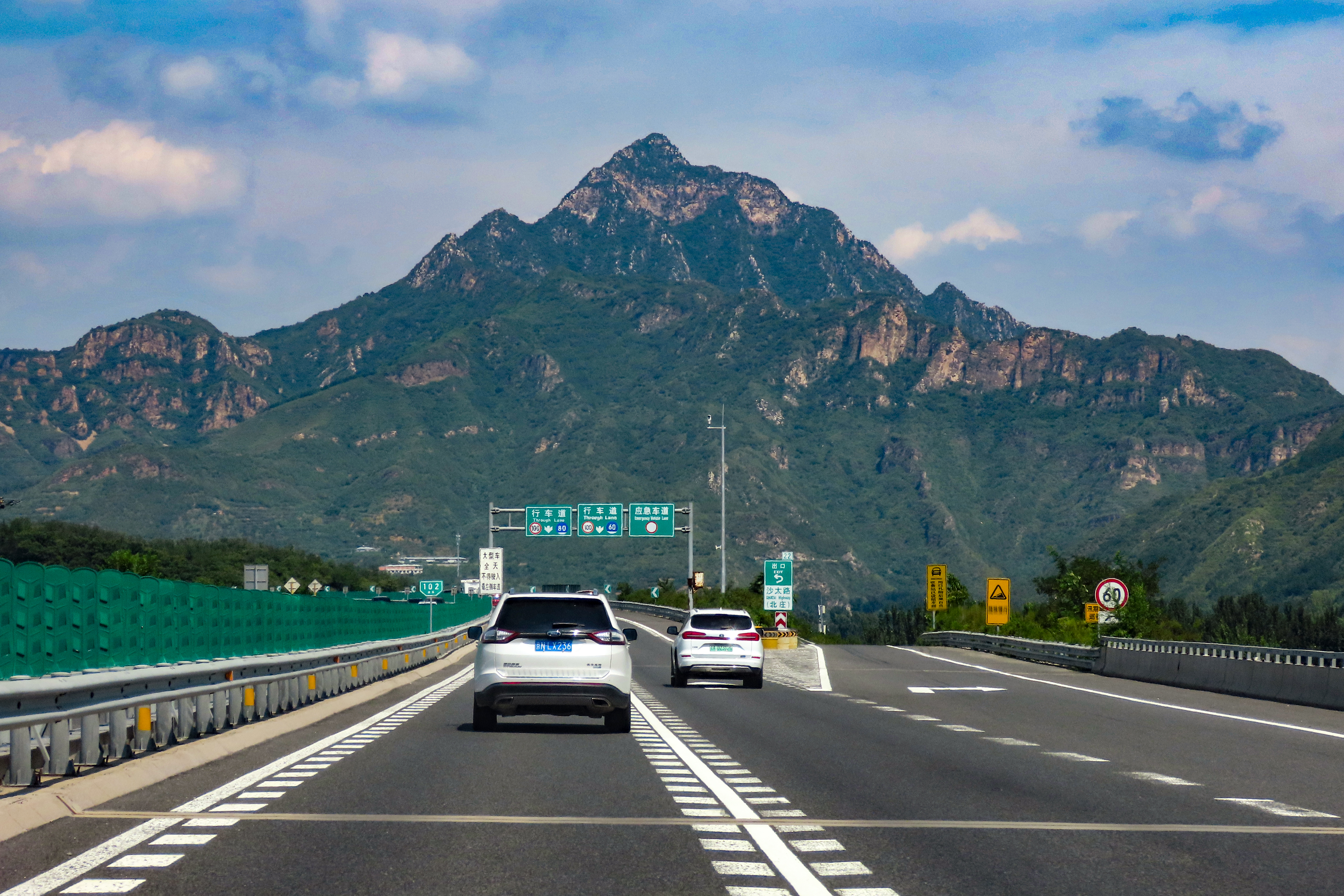 What's this mountain on the front?